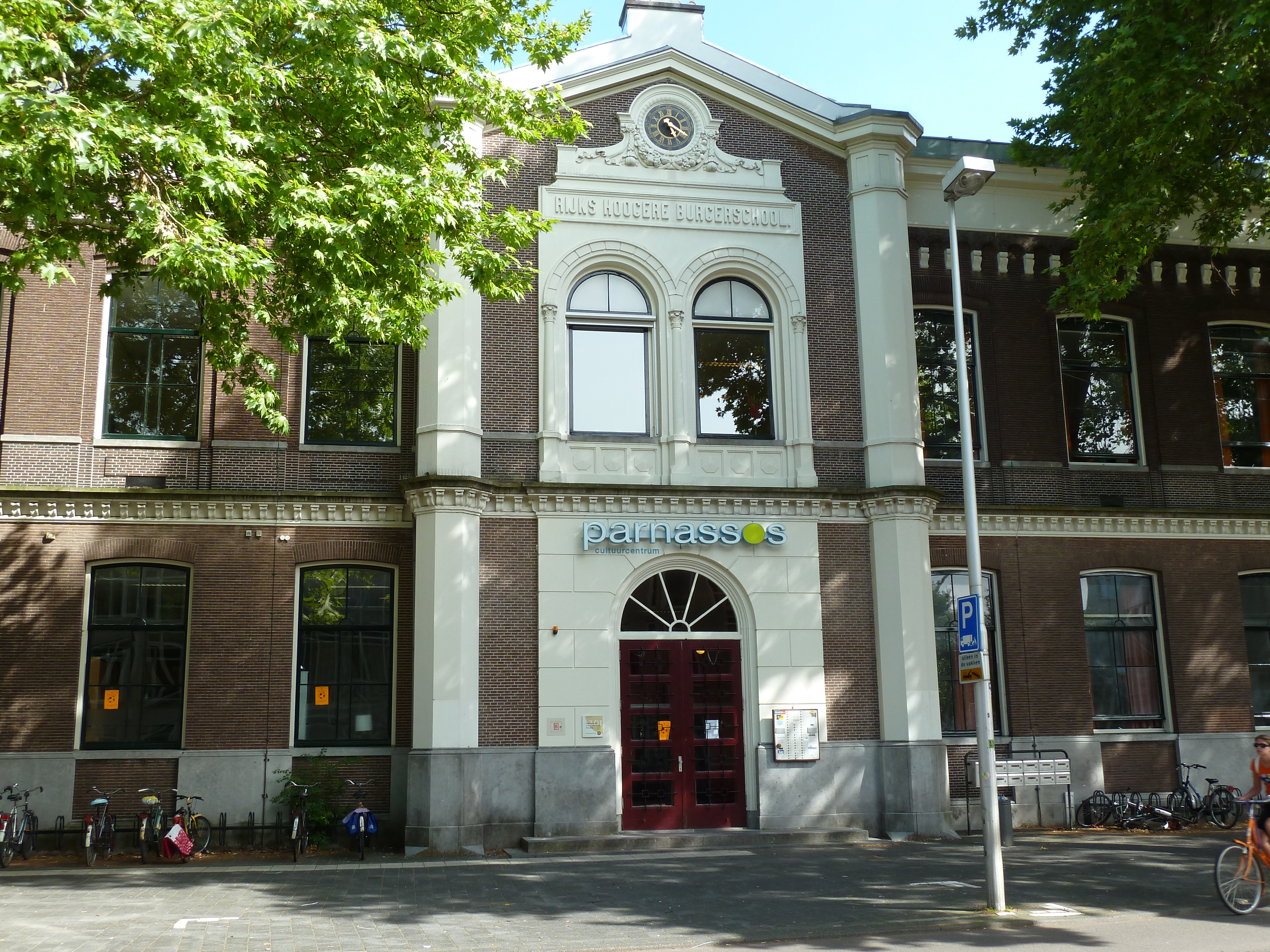 52°5'39"N, 5°7'49"O